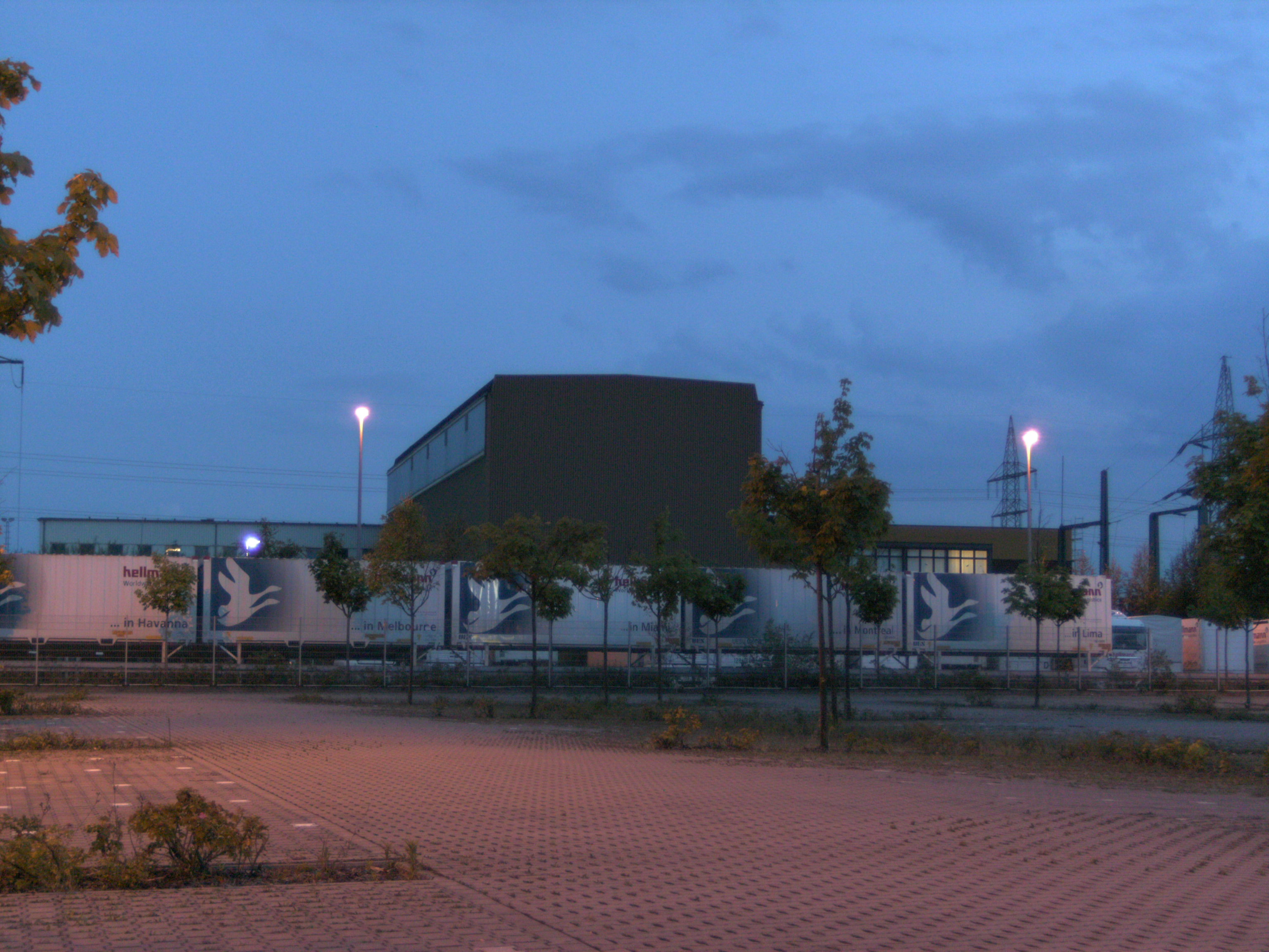 Building of Lehrte Traction Current Converter Plant